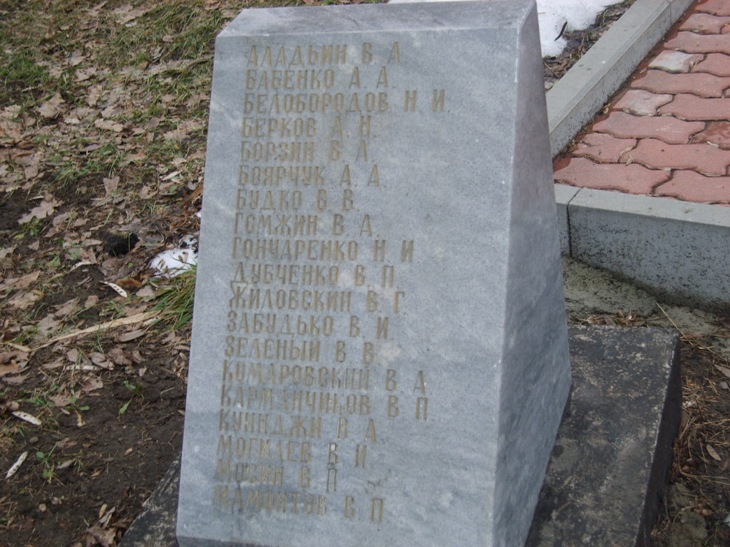 Списки ушедших красносулинцев, принимавших участие в ликвидации последствий Чернобыля.